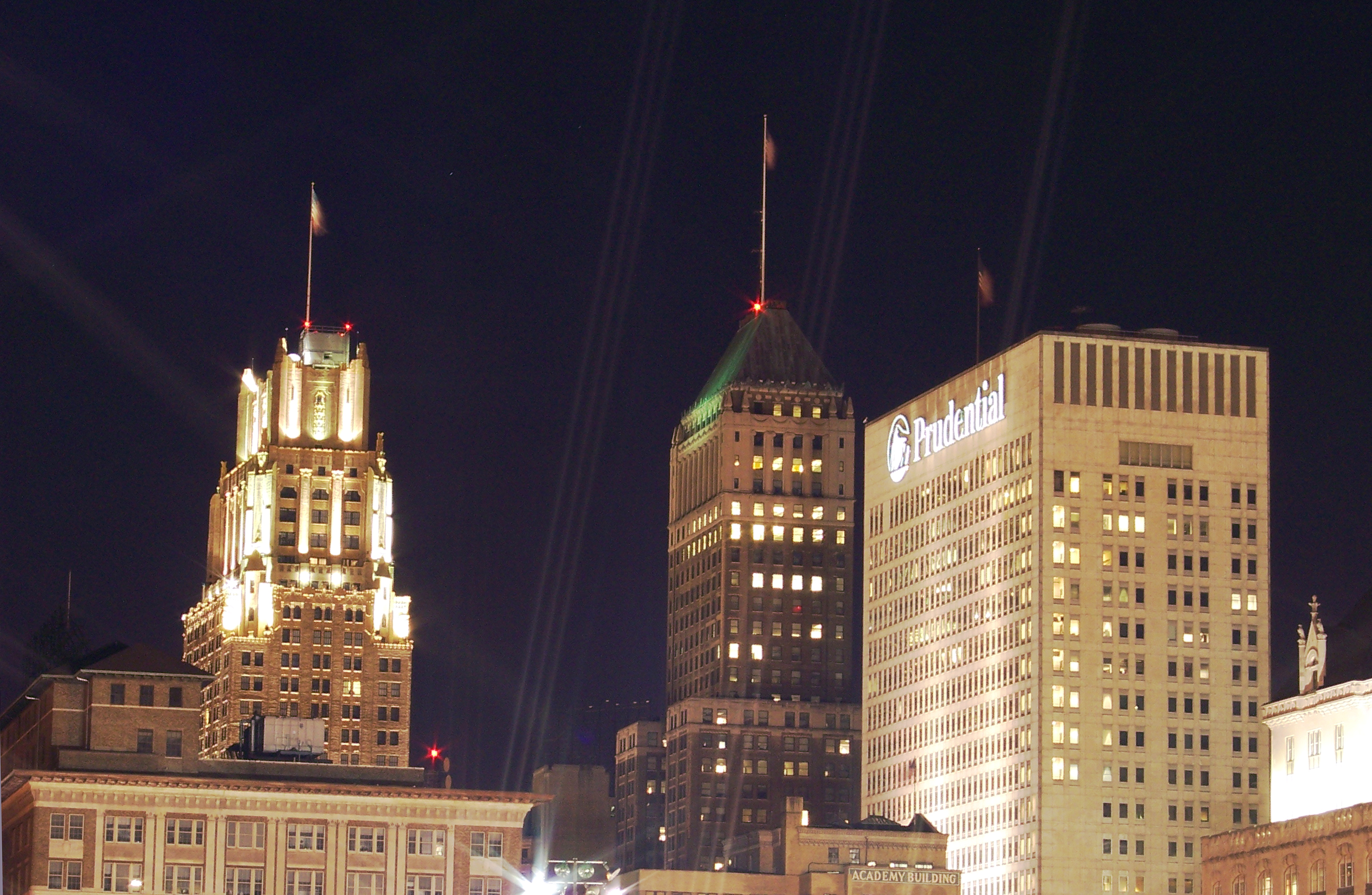 The skyline of Newark seen from near Rutgers-Newark campus.